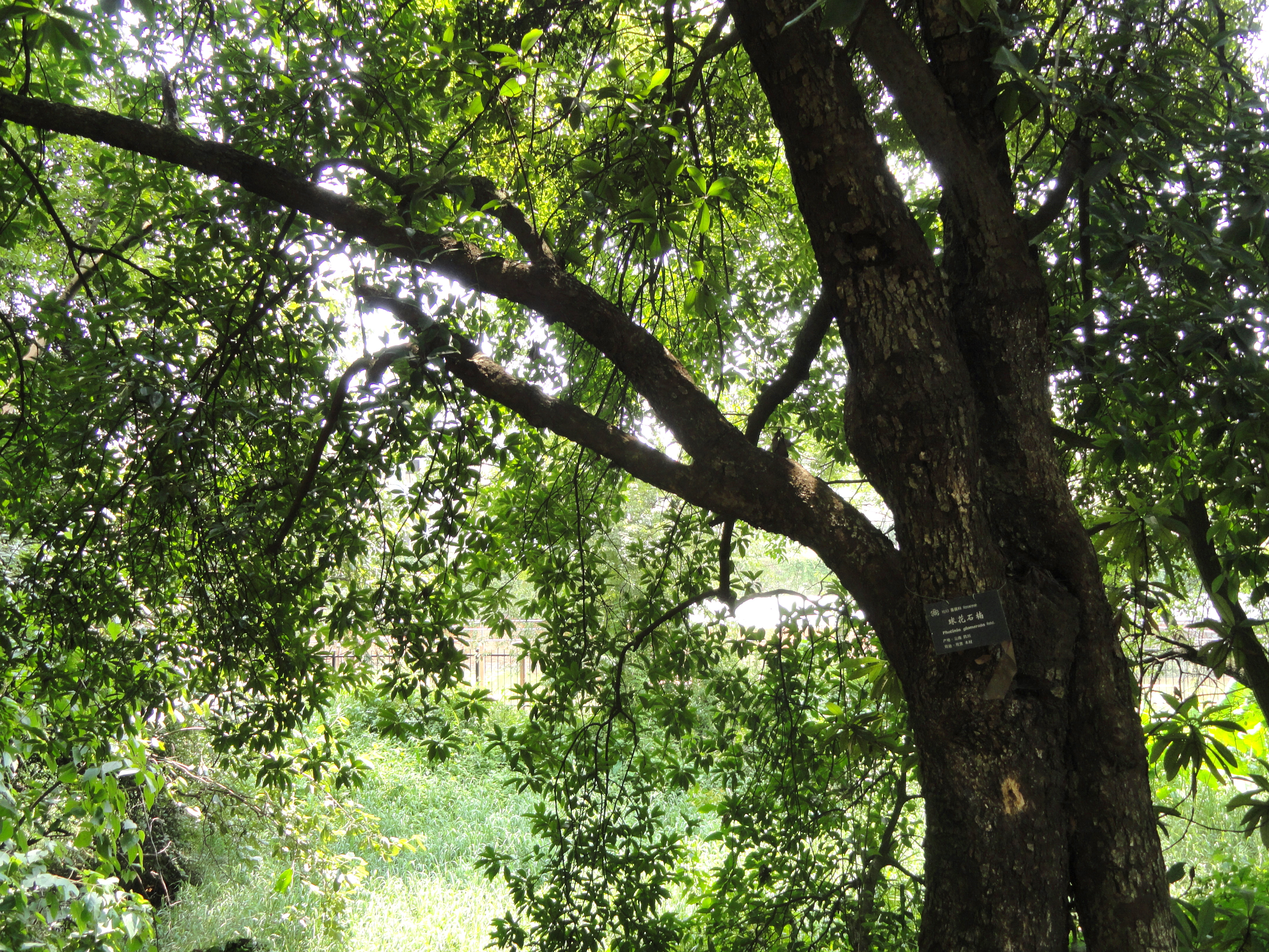 Plant specimen in the Kunming Botanical Garden, Kunming, Yunnan, China.